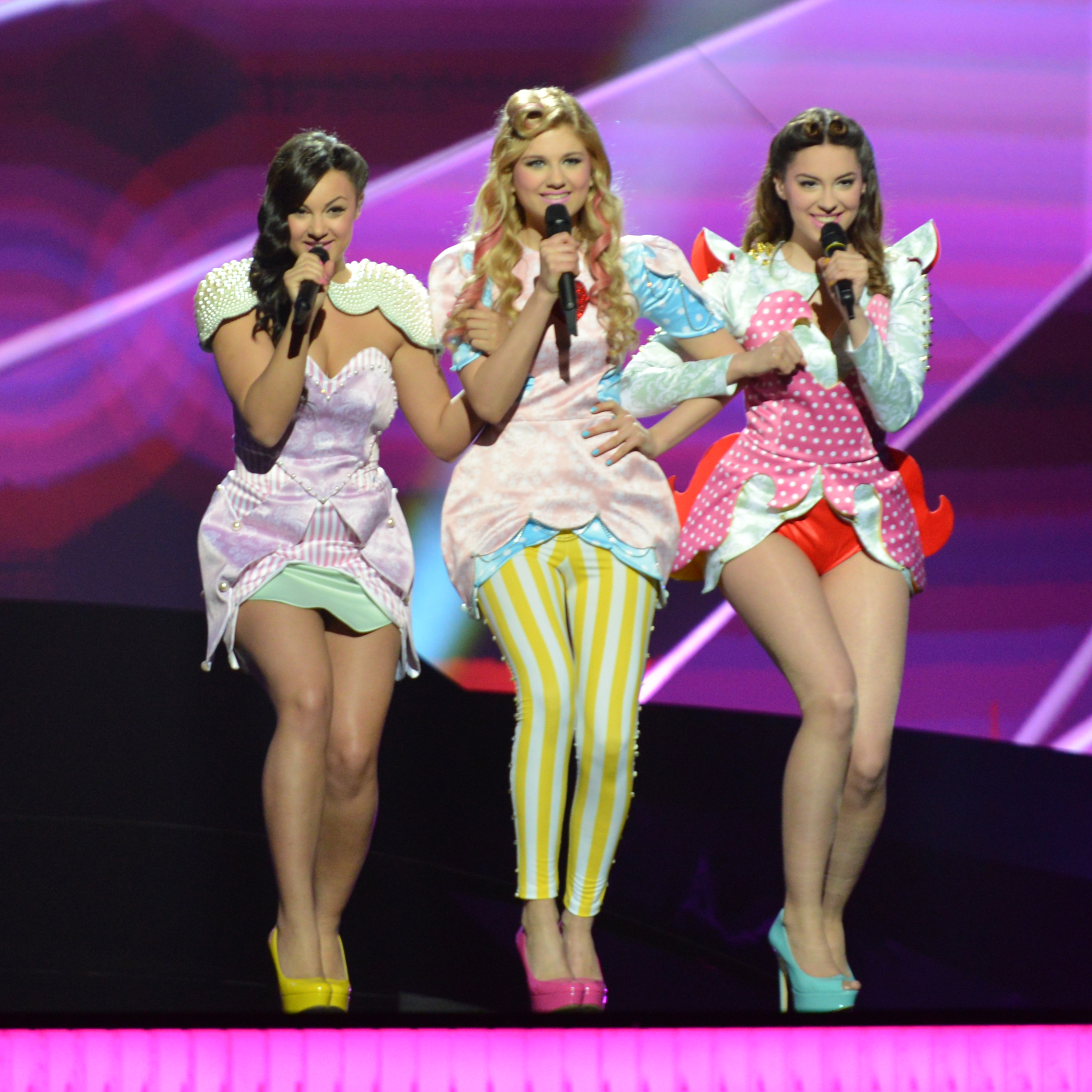 Moje 3 representing Serbia with the song "Ljubav je svuda" (Љубав је свуда) during the first dress rehearsal of the first semi final of the Eurovision Song Contest 2013 Malmö. (Help translate this text)